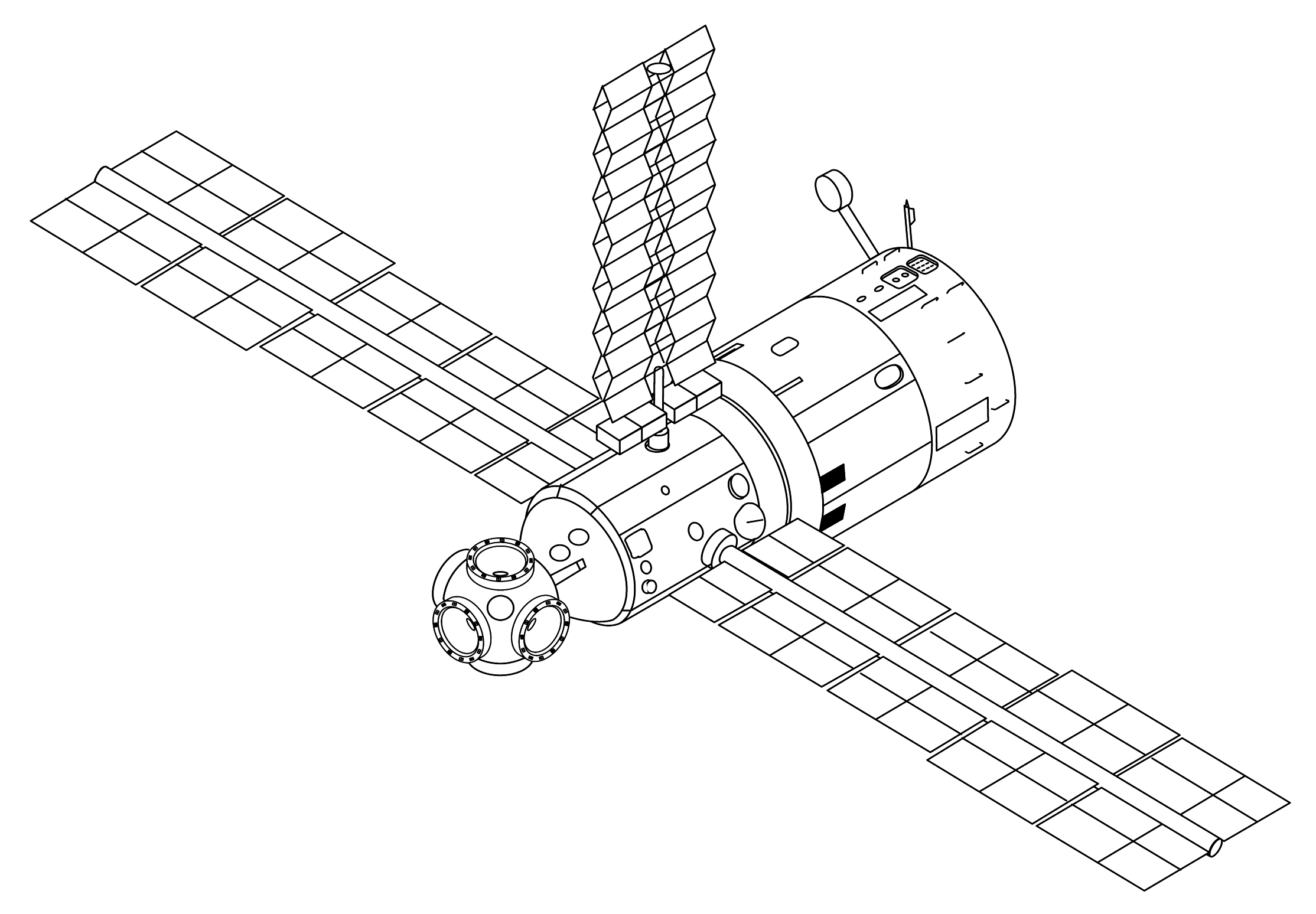 From File:Mir 1987 configuration drawing.png.